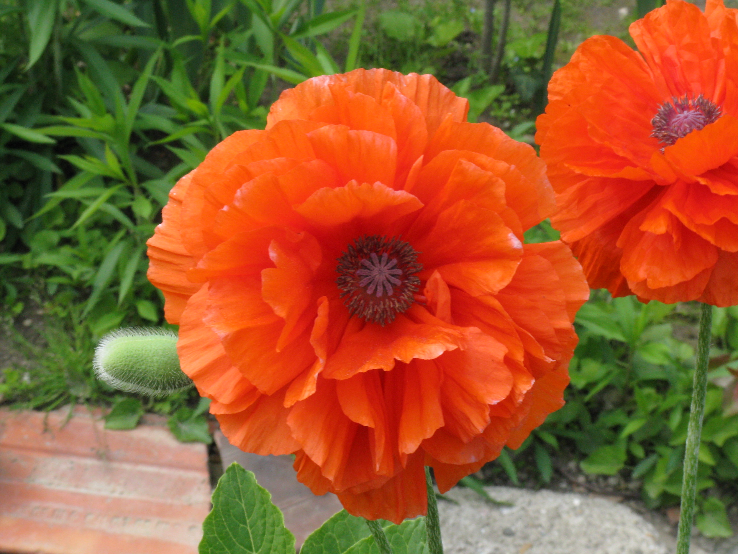 Pipacs (Papaver orientale 'Olympia')